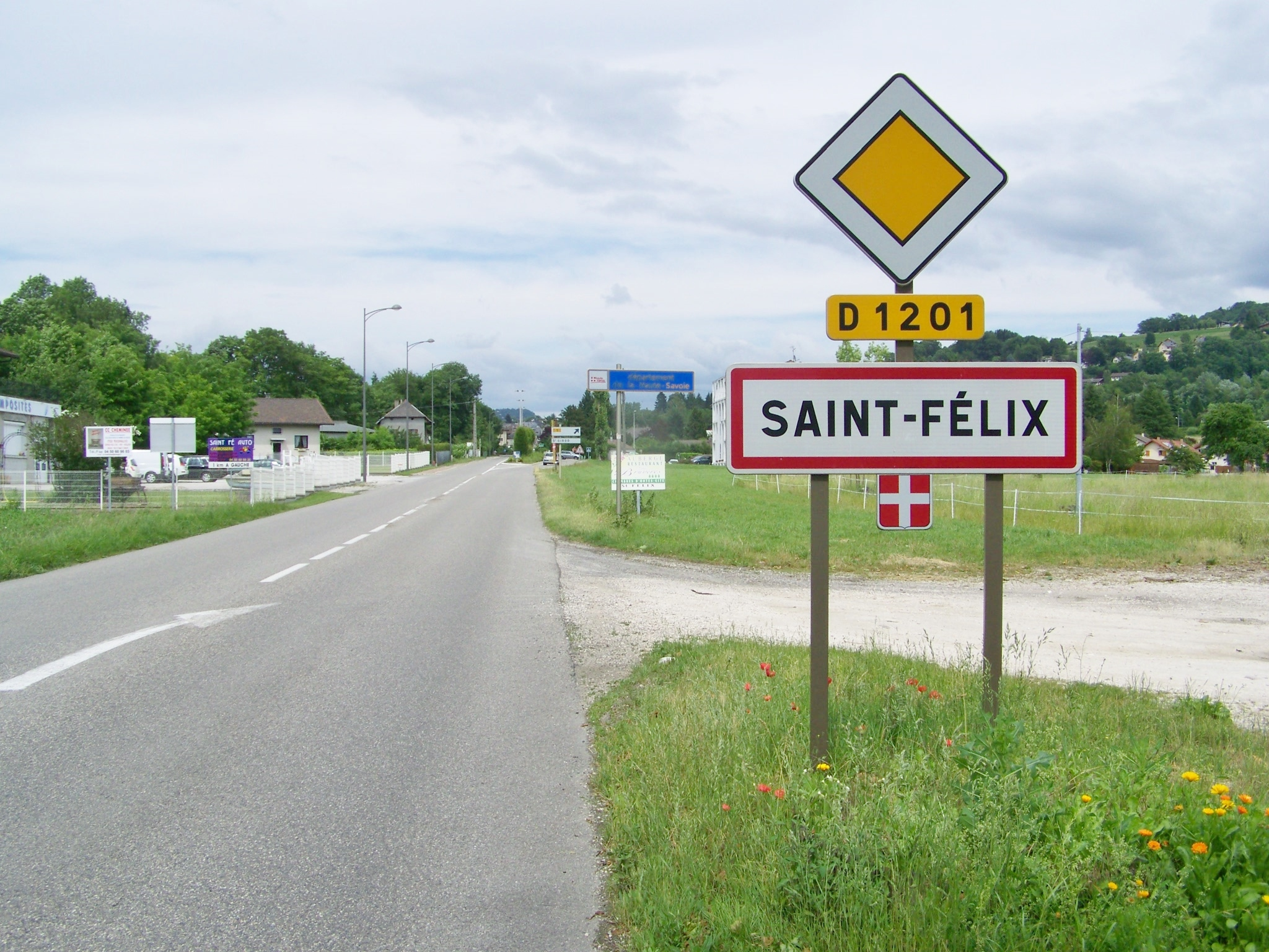 Roadsign welcoming to French commune of Saint-Félix in Haute-Savoie, when arriving from Albens in Savoie.